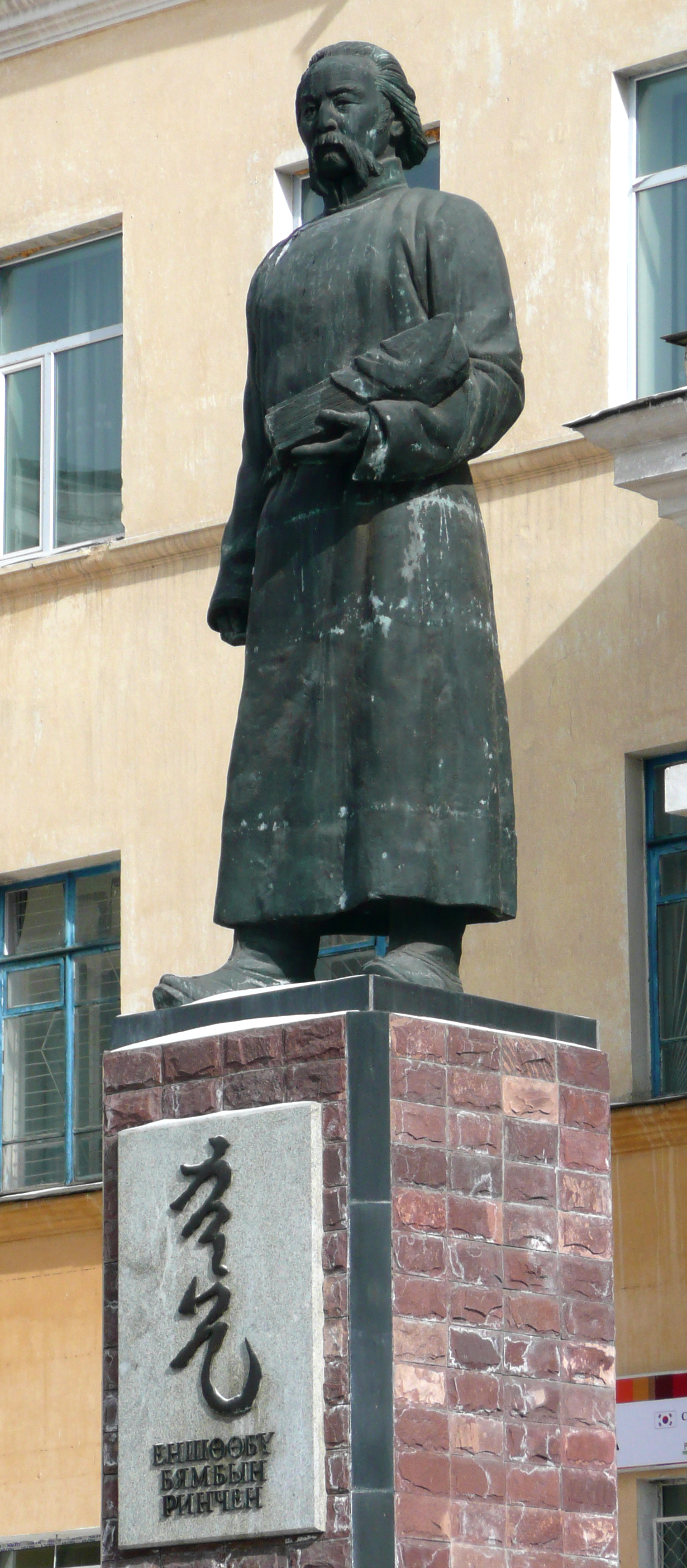 Statue Byambyn Rinchen in Ulan Bator in front of the library, a Mongolian writer and one of the founders of modern Mongolian literature